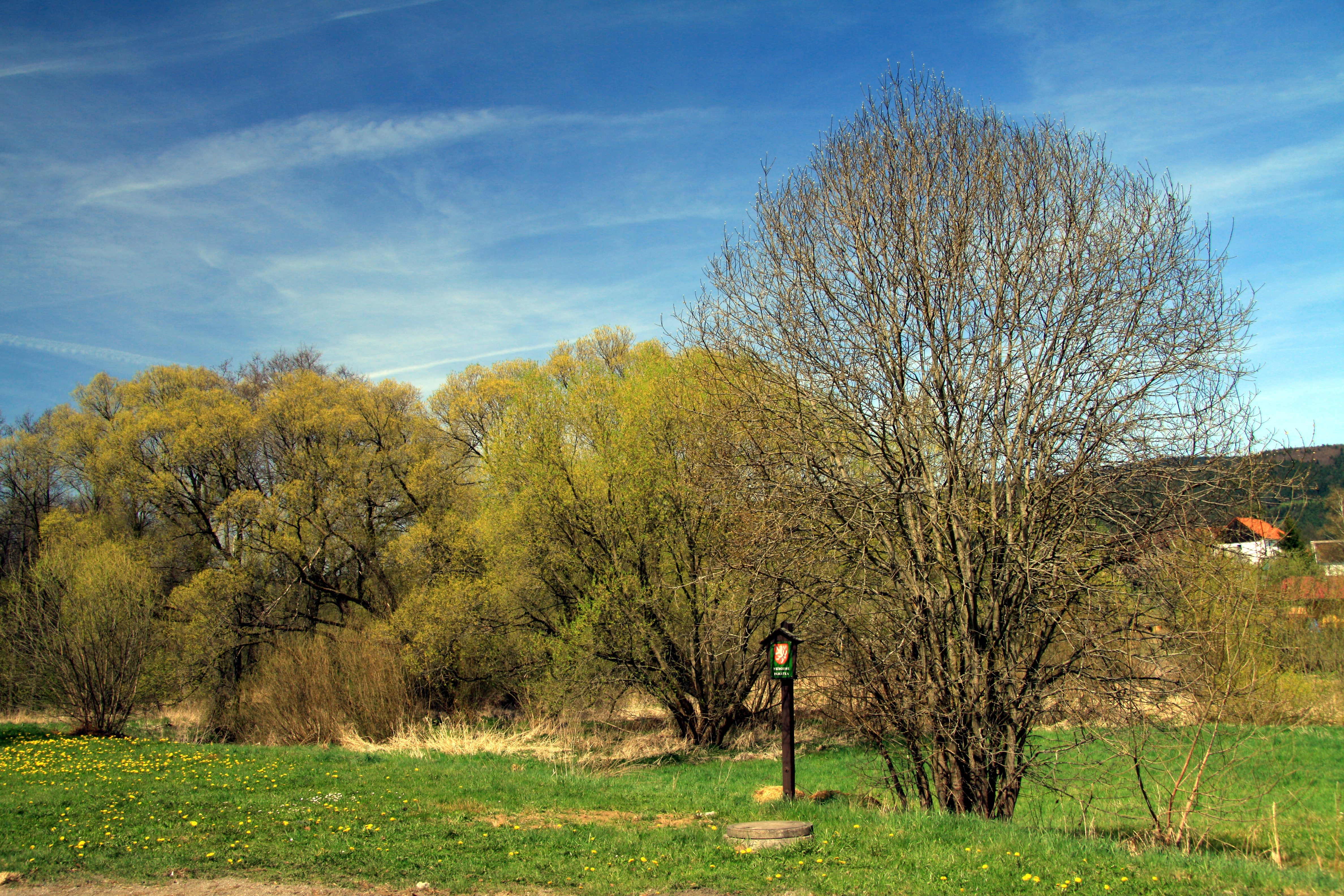 Natural monument Meandry Chvalšinského potoka near Křenov u Kájova village in Český Krumlov District, Czech Republic Project: Chráněná území.